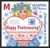 Happy Postcrossing!